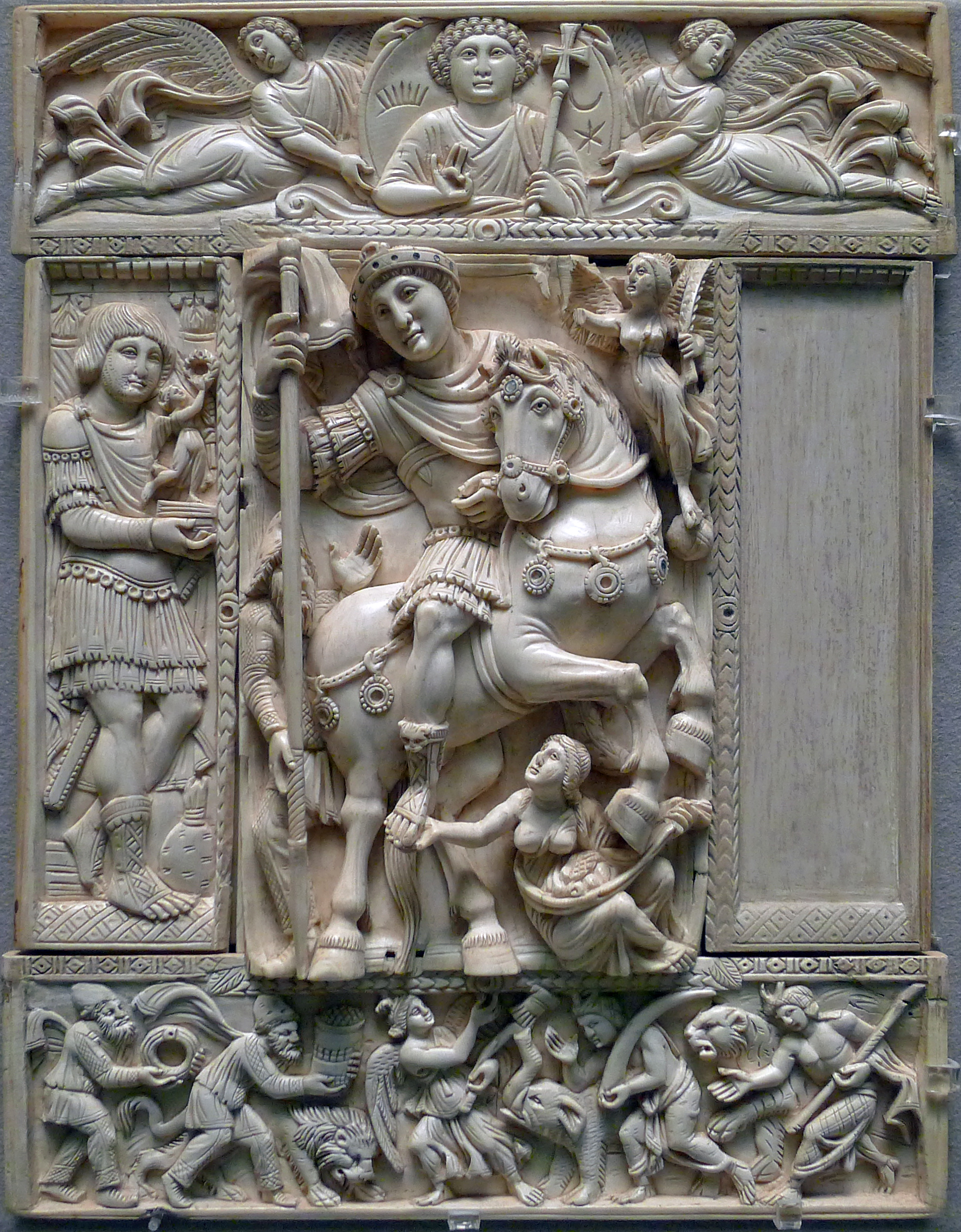 Barberini diptych, Constantinople, Late Roman Theodosian style.